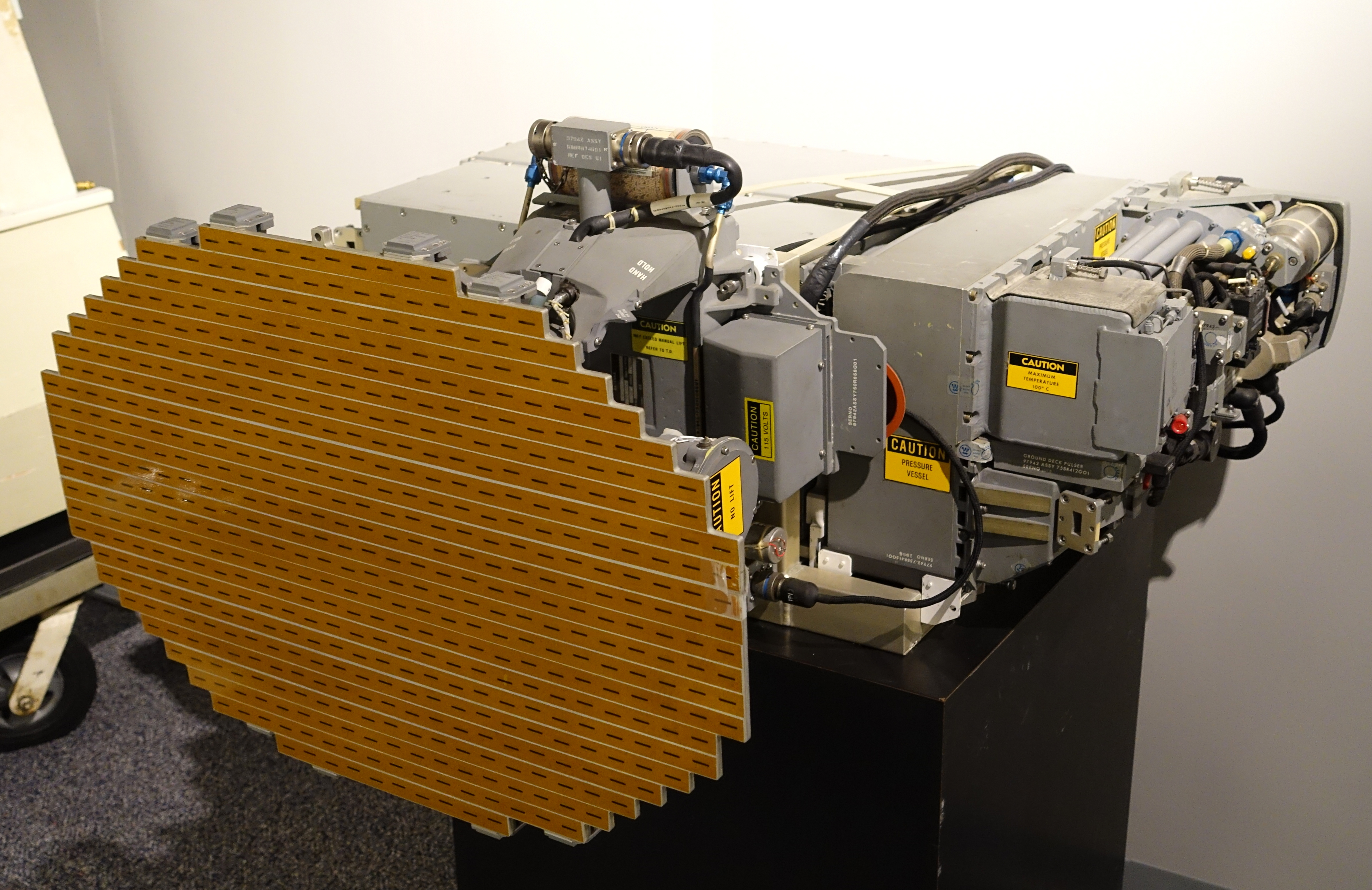 Exhibit in the National Electronics Museum, 1745 West Nursery Road, Linthicum, Maryland, USA. All items in this museum are unclassified. The museum permitted photography without restriction.